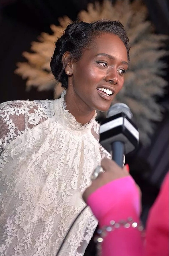 Tahounia Rubel, 2014.